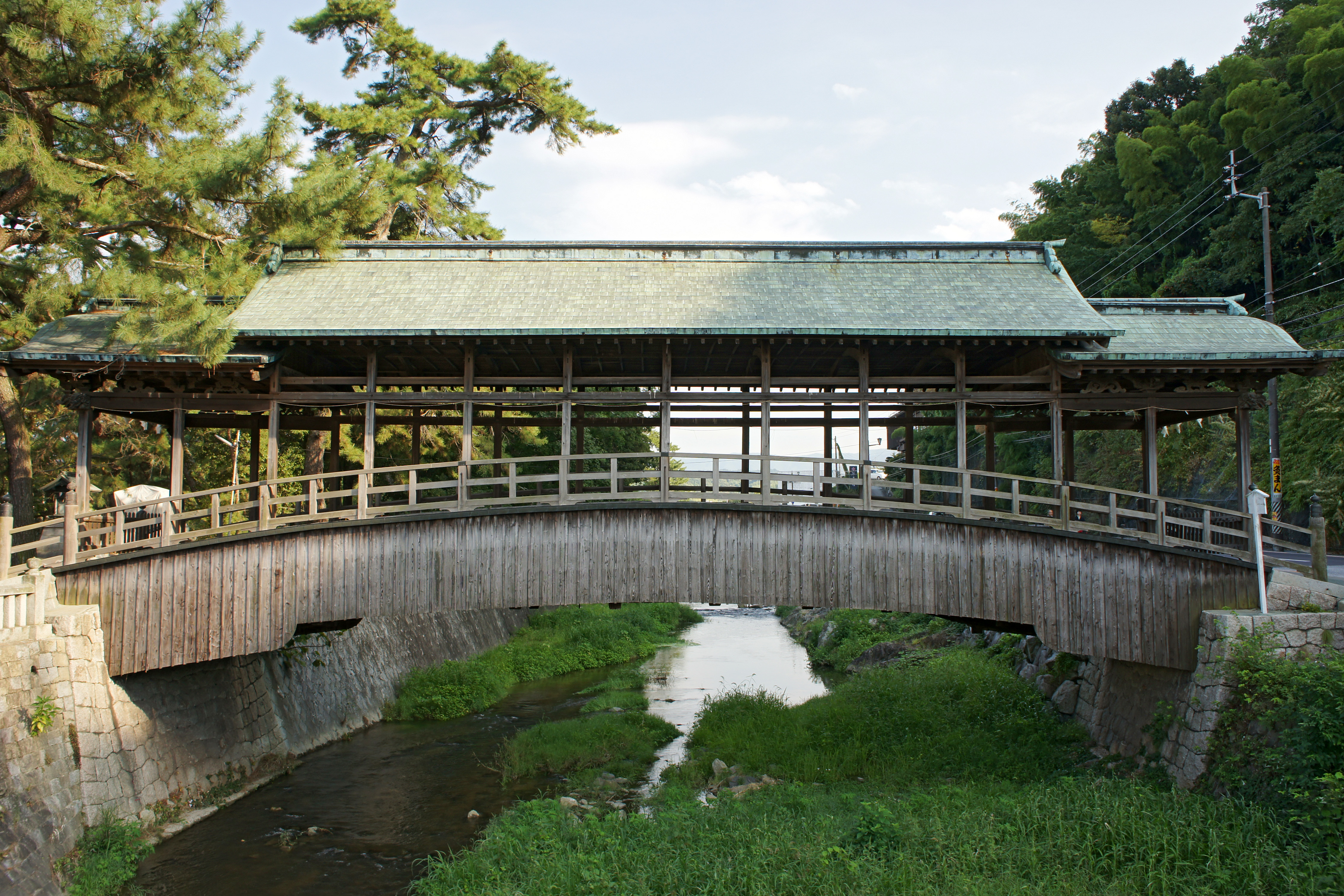 Saya-bridge in Kotohira, Kagawa prefecture, Japan.